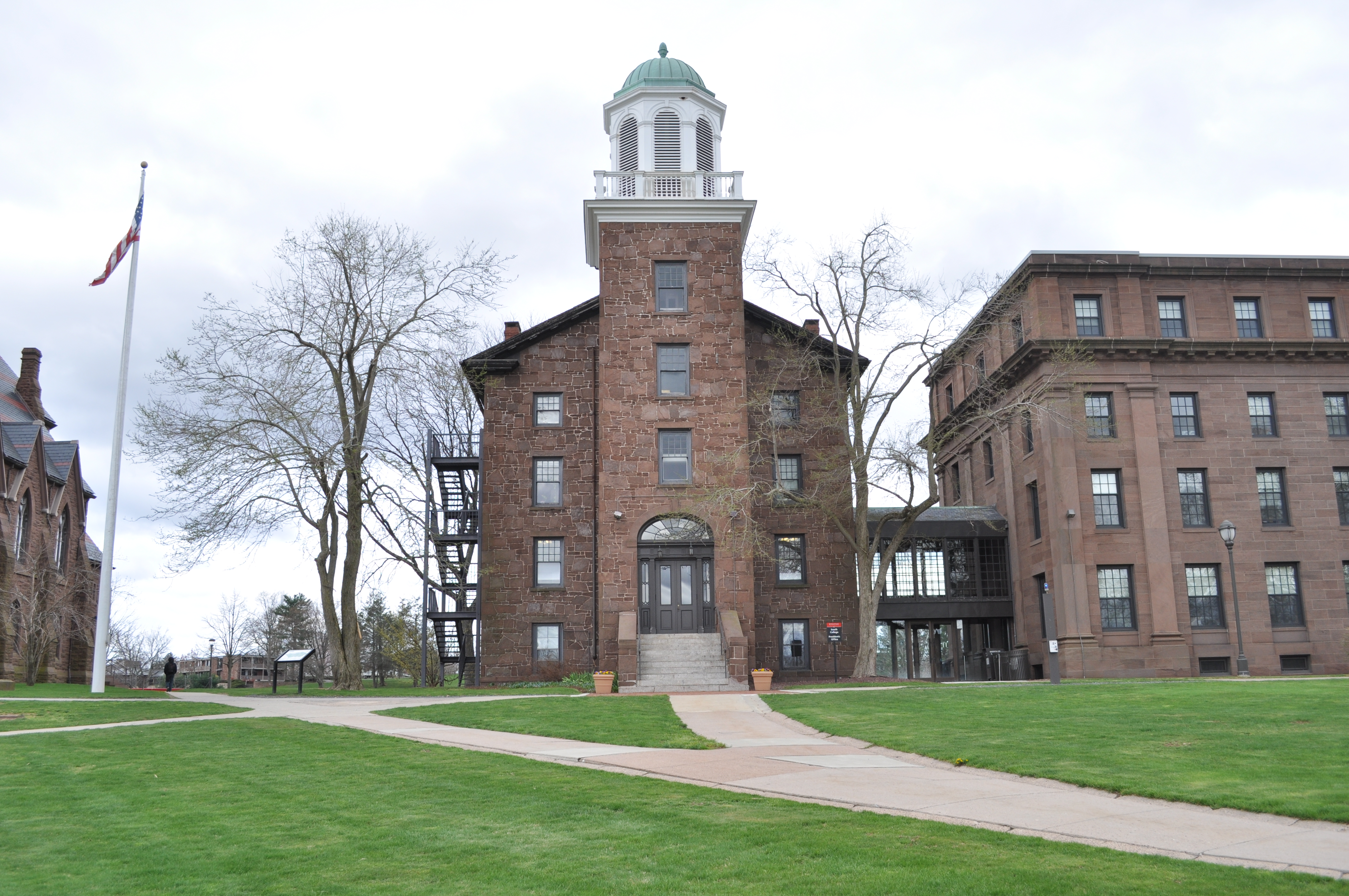 South College, Wesleyan University, Middletown, Connecticut, USA.